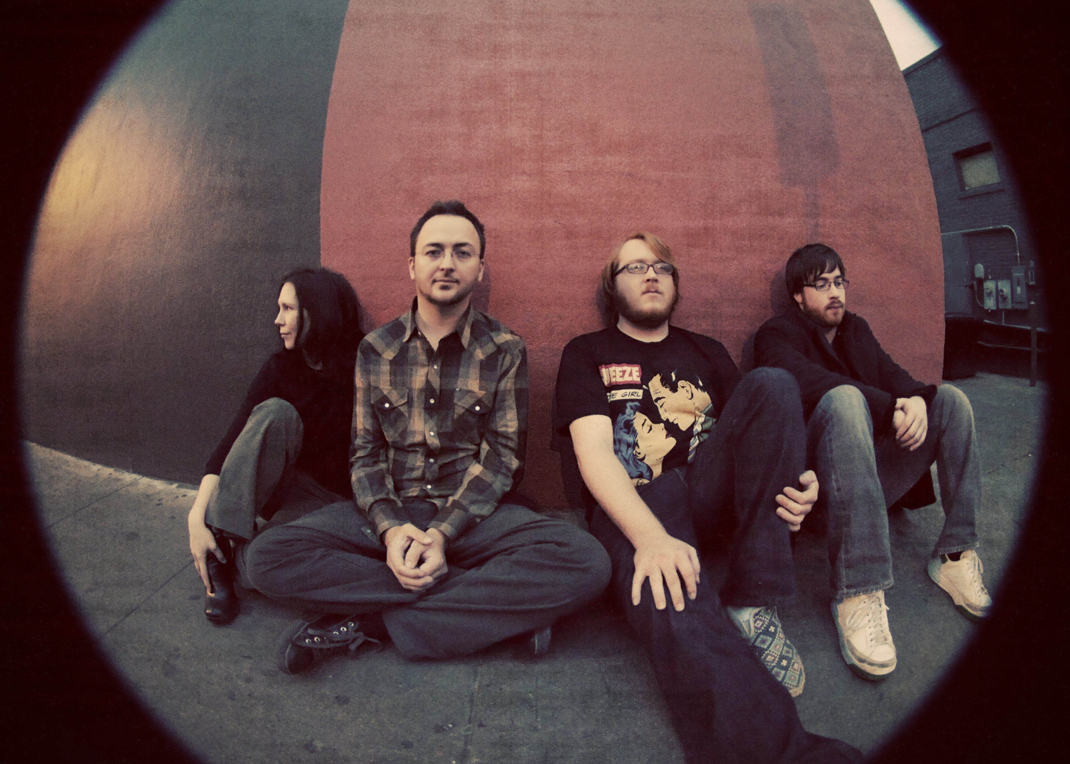 The Picture was taken in Austin Texas on January 17th, 2009 by Pandora Van Natter.